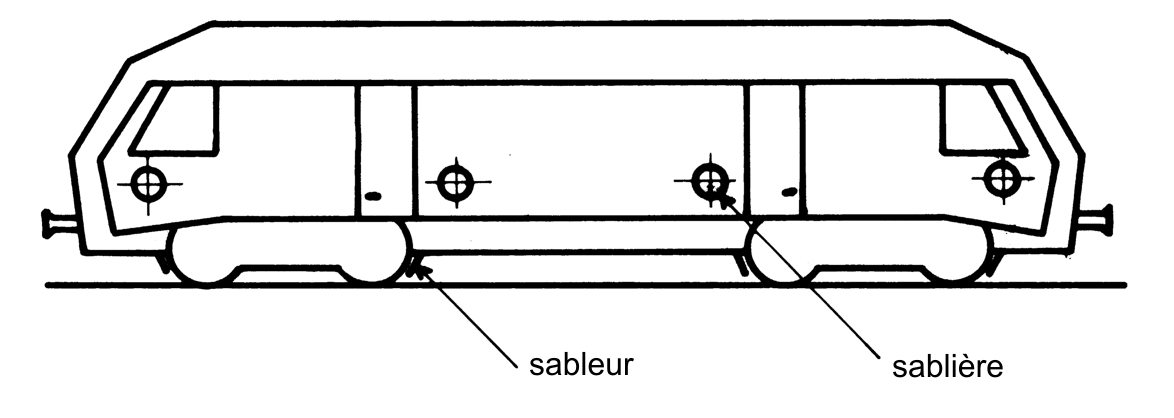 Railways vehicule with sandbox.